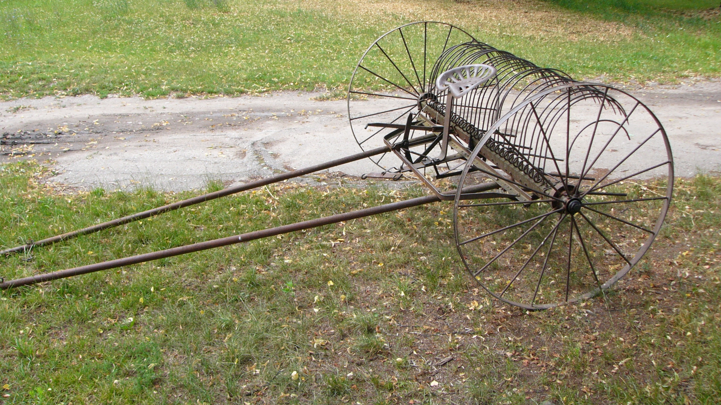 Hay rake. Photo taken in Olomouc, the Czech Republic.